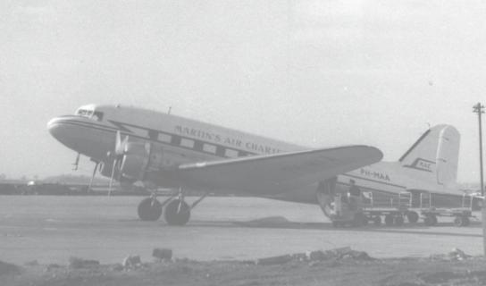 Martin's Air Charter (Martinair) Douglas DC-3 at Manchester Airport